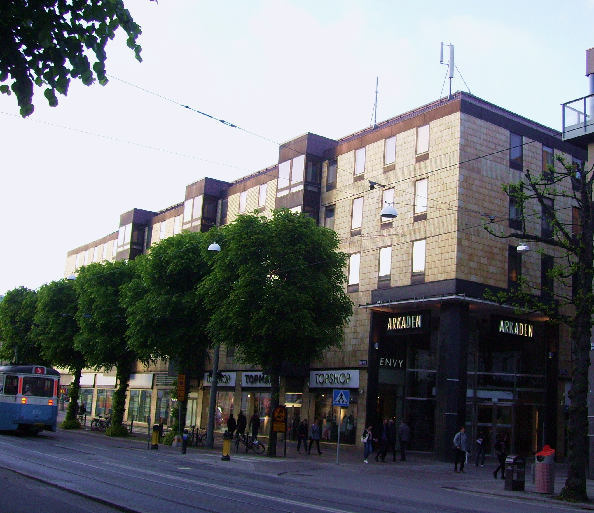 Picture of Arkaden in Göteborg